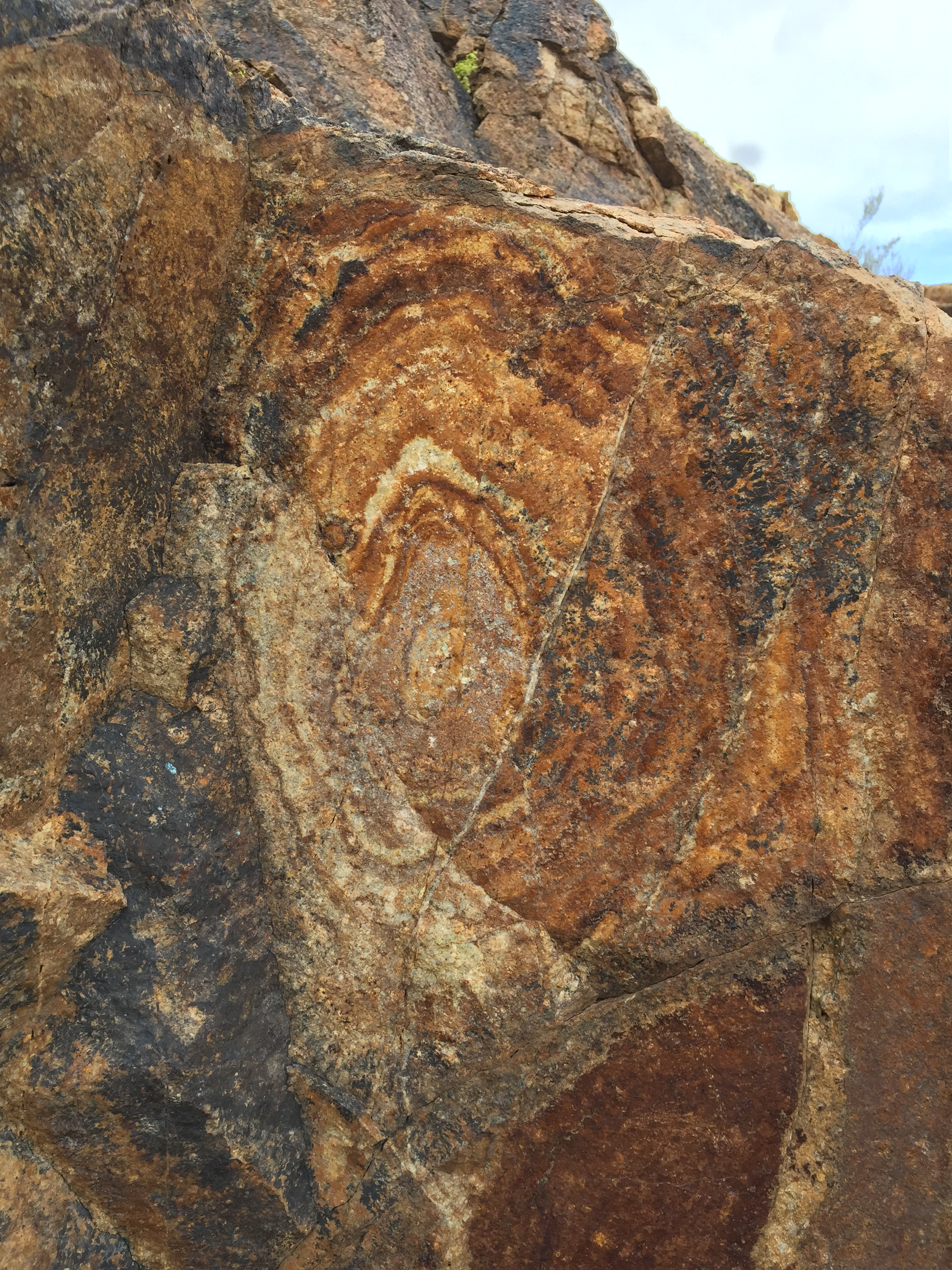 Liesegang Rings (concentric concretions) on east side of Saginaw Hill on west side of Tucson AZ